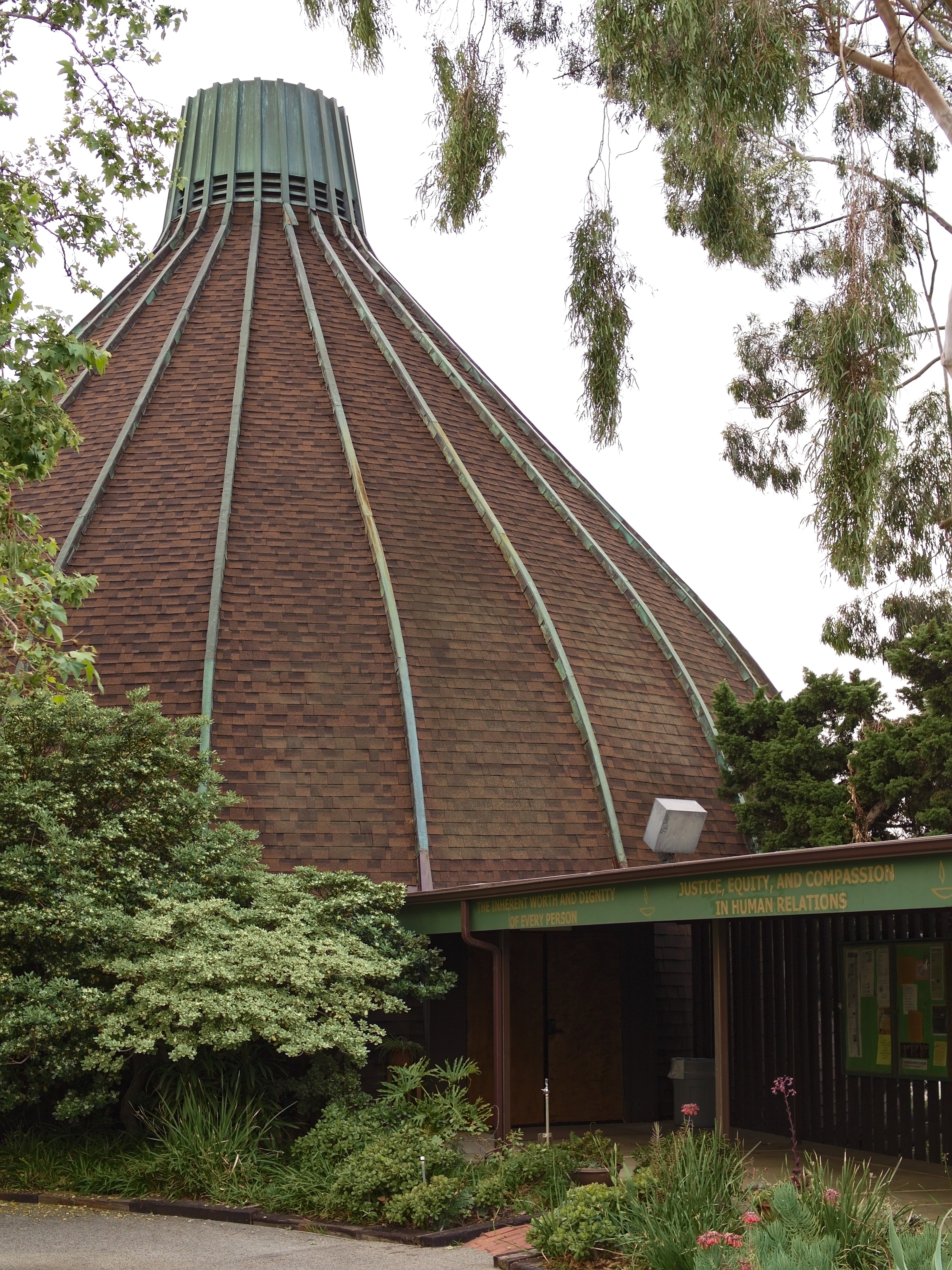 Sepulveda Unitarian Universalist Society Sanctuary ("The Onion"), Los Angeles Historic Cultural Monument #975, view from the northeast.